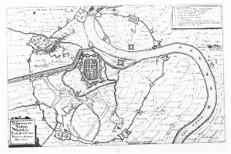 Siege of Rheinberg by Ambrosio Spinola at 1606